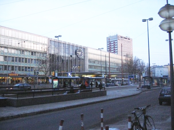 Munich Central Station, early morning